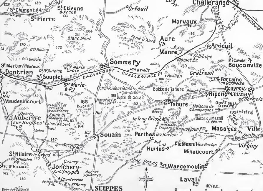 Map of Champagne region, 1915